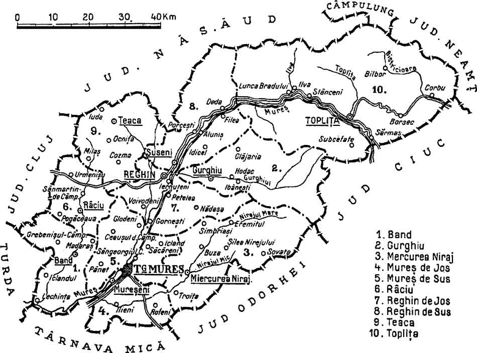 Map of Mureș interwar county, Kingdom of Romania (1938).